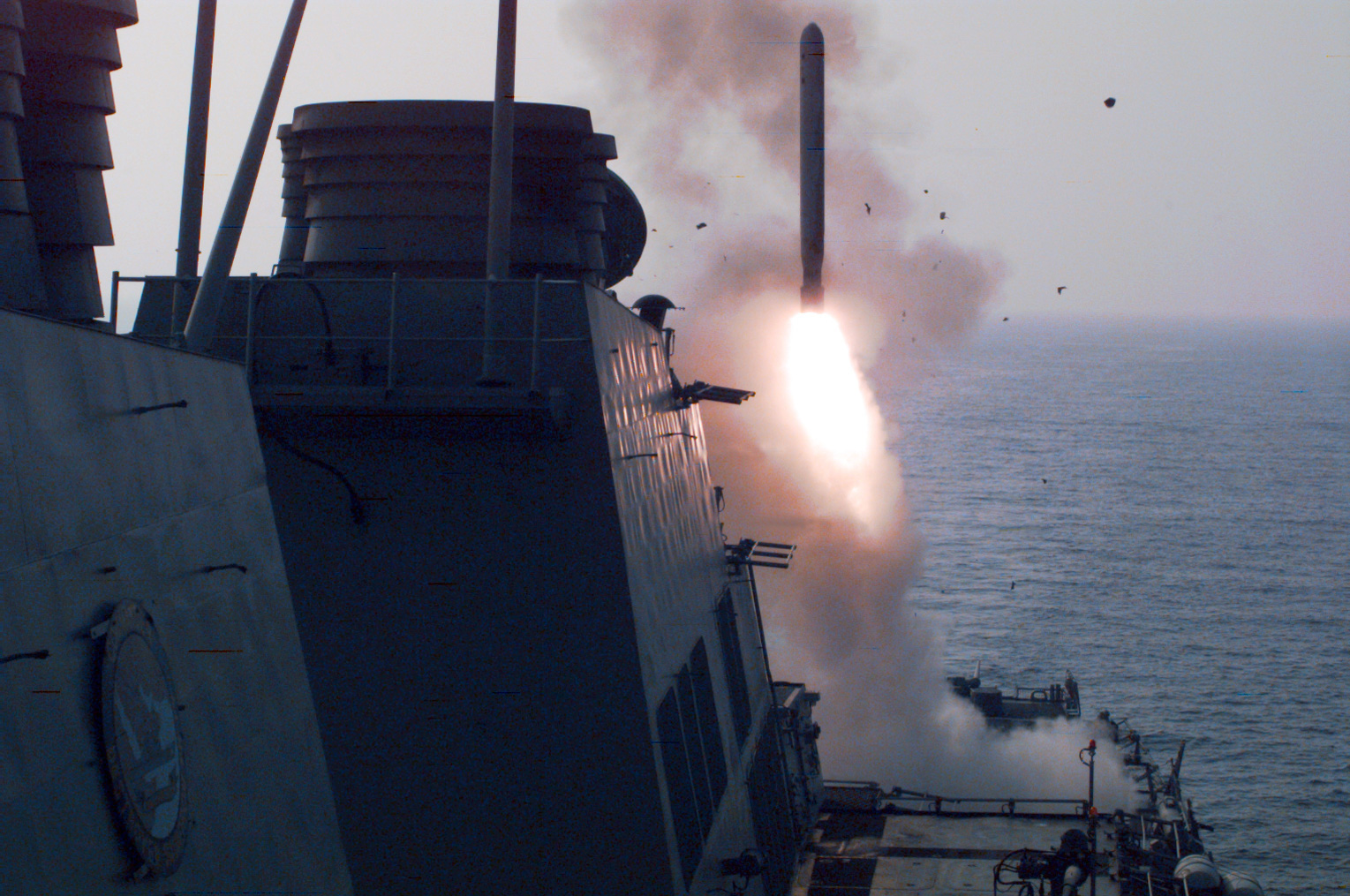 960903-N-8202E-003 September 3, 1996. . . .A Tomahawk Cruise missile is launched from the aft missile silo on board the U.S. Navy’s Arleigh Burke-class destroyer USS LaBoon (DDG 58) at 0715 local time in the Northern Arabian Gulf. Following Saddam Hussein’s offensive action into Kurdish territory within the UN sponsored “no-fly zone”, above the 36th parallel, U.S. Naval forces launched 14 Tomahawk Cruise missiles on targets in Iraq. U.S. Navy Photo by Photographer’s Mate 1st Class Wyane W. Edwards (Released)